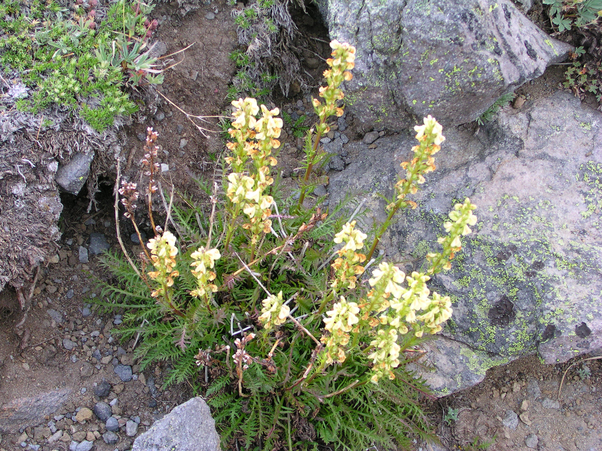 Pedicularis contorta Second Burroughs There are six native species of Pedicularis within Mount Rainier National Park Pedicularis bracteosa at Burke Museum Pedicularis contorta at Burke Museum Pedicularis groenlandica at Burke Museum Pedicularis ornithorhyncha at Burke Museum Pedicularis racemosa at Burke Museum Pedicularis rainierensis at Burke Museum DSCN5023